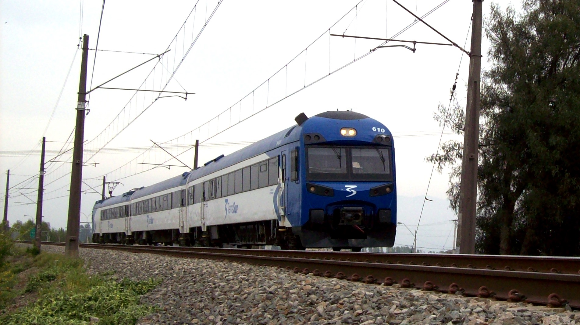 UTS-444.610 Railcar (from Talca and destination Alameda, Santiago) through the curve above Maipo bridge, on Metropolitana Region, Chile.